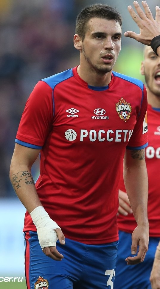 Zvonimir Šarlija with PFC CSKA Moscow in a game against FC Akhmat Grozny.